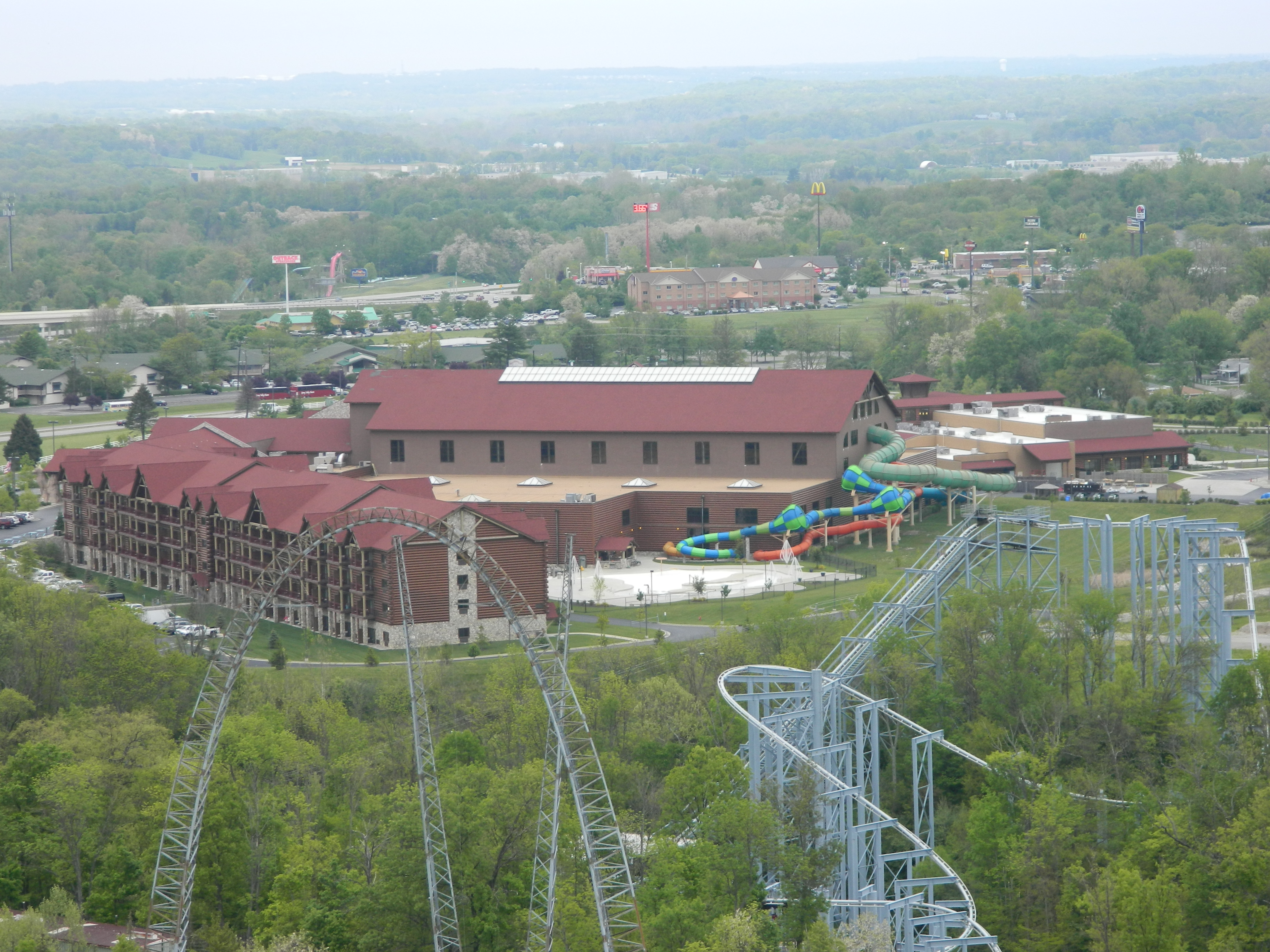 Great Wolf Lodge in Mason, viewed from the 1/3 scale replica of the Eiffel Tower inside the Kings Island amusement park next door.